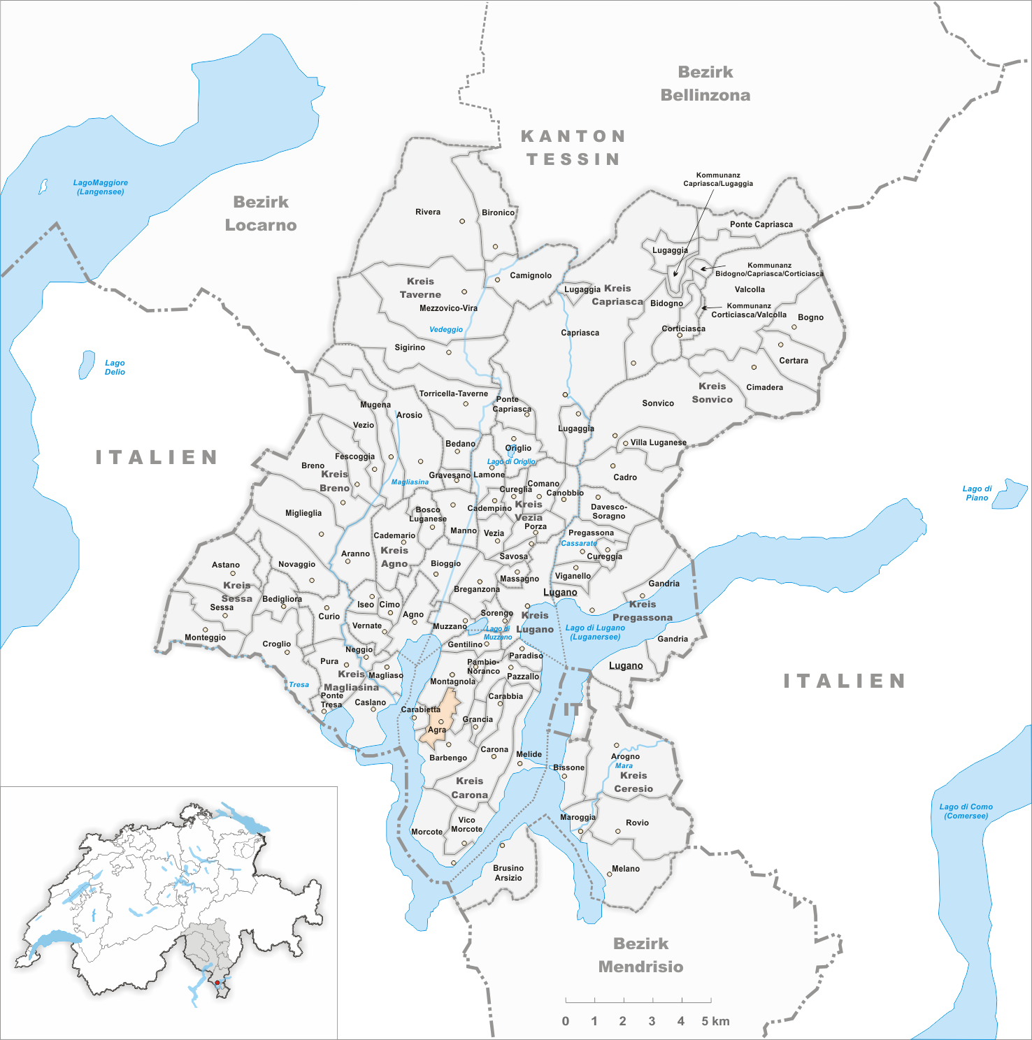 Municipality Agra Artist: Tschubby